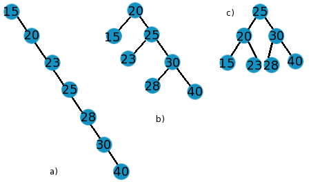 Example of DSW balance.